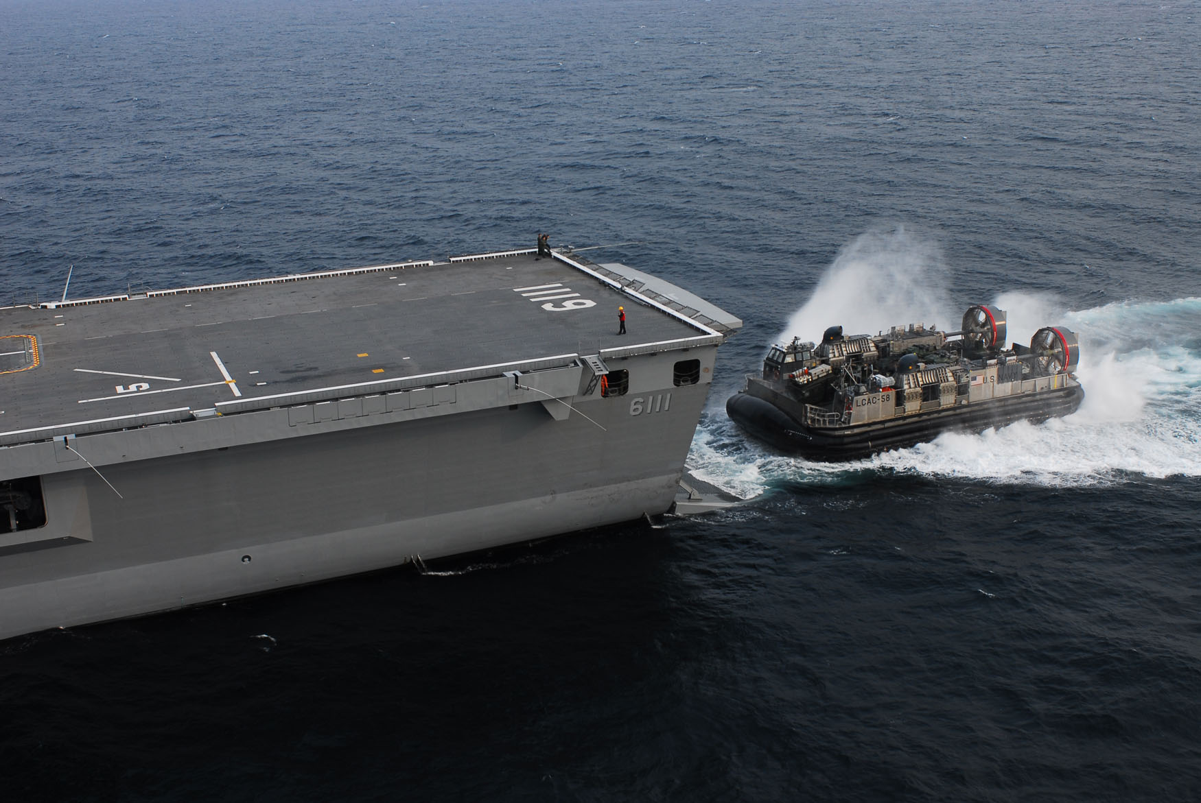 071115-N-0237L-103 SEA OF JAPAN (Nov. 11, 2007) Republic of Korea (ROK) amphibious assault ship ROKS Dokdo (LPH 6111) conducts well deck operations with a U.S. landing craft air cushion, from the "Dragons" of Assault Craft Unit (ACU) 5 Det. Western Pacific, embarked aboard the amphibious assault ship USS Essex (LHD 2). U.S. and ROK forces are currently involved in the Korean Interoperability Training Program to increase U.S./Korean bilateral amphibious operational readiness. Essex is the lead ship of the only forward-deployed U.S. Expeditionary Strike Group and serves as the flagship for CTF 76, the Navy's only forward-deployed amphibious force commander. Task Force 76 is headquartered at White Beach Naval Facility, Okinawa, Japan, with a detachment in Sasebo, Japan.